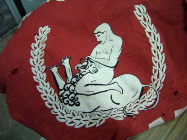 Anagram from a CNT-FAI-AIT flag of Tamarite de Litera